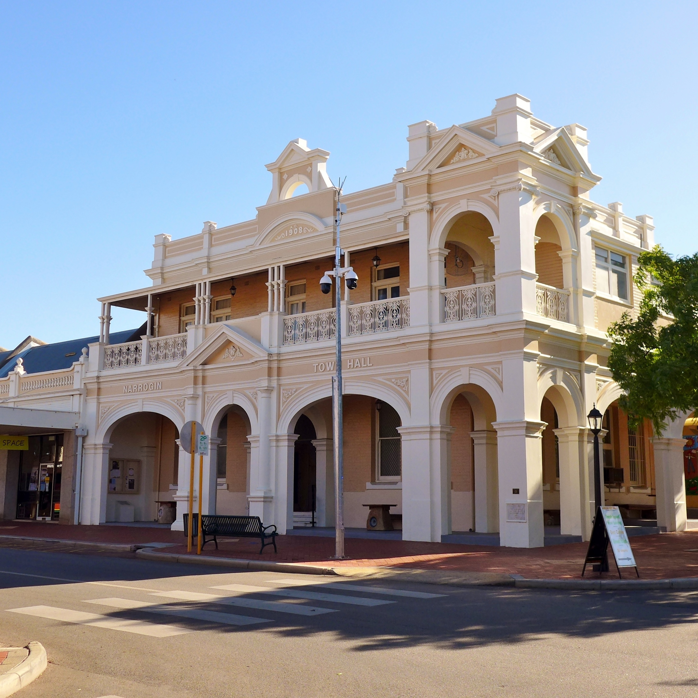 View of the Narrogin Town Hall, Federal Street, Narrogin, Western Australia